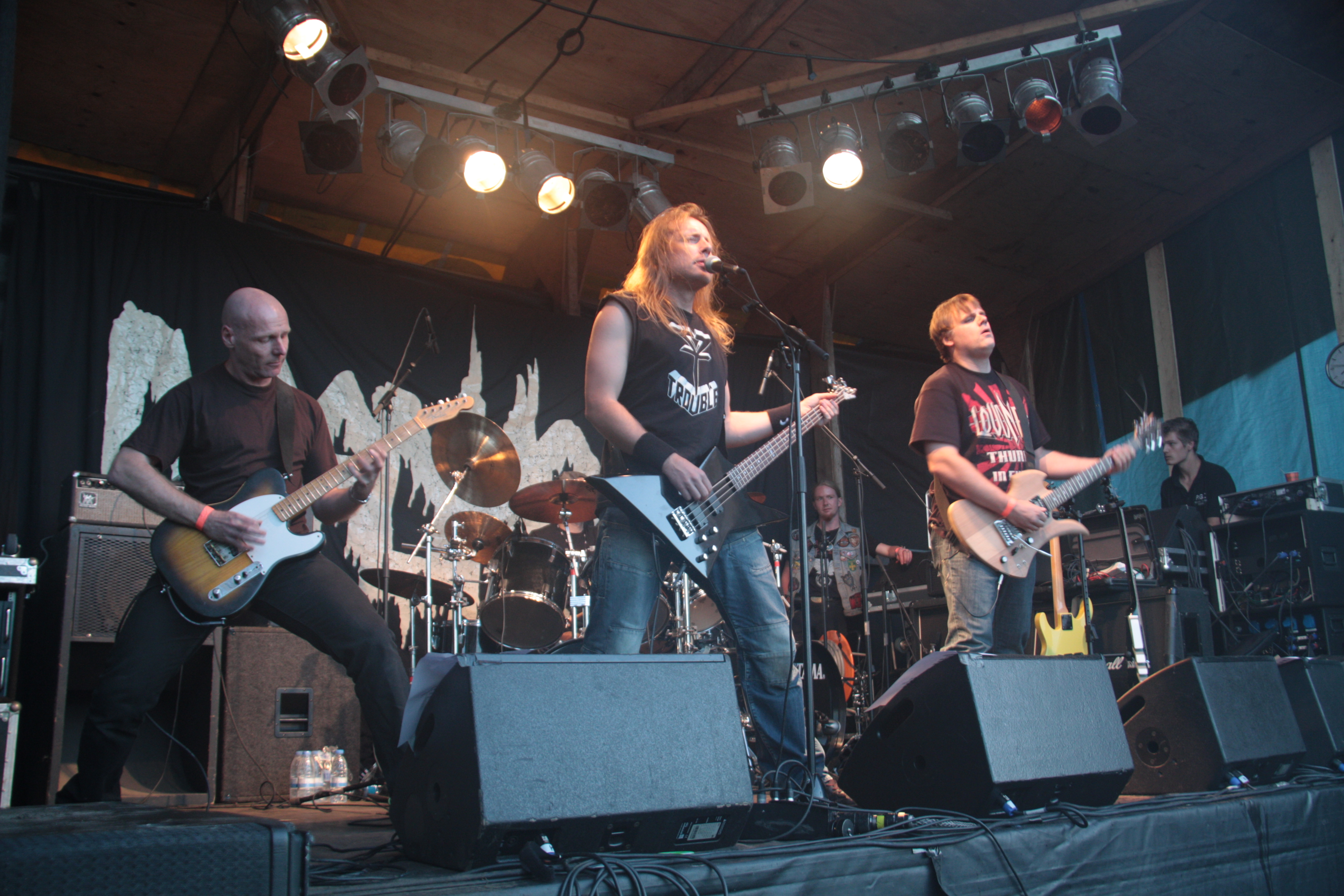 Dead Head on Occultfest 2010, Saturday september 4th